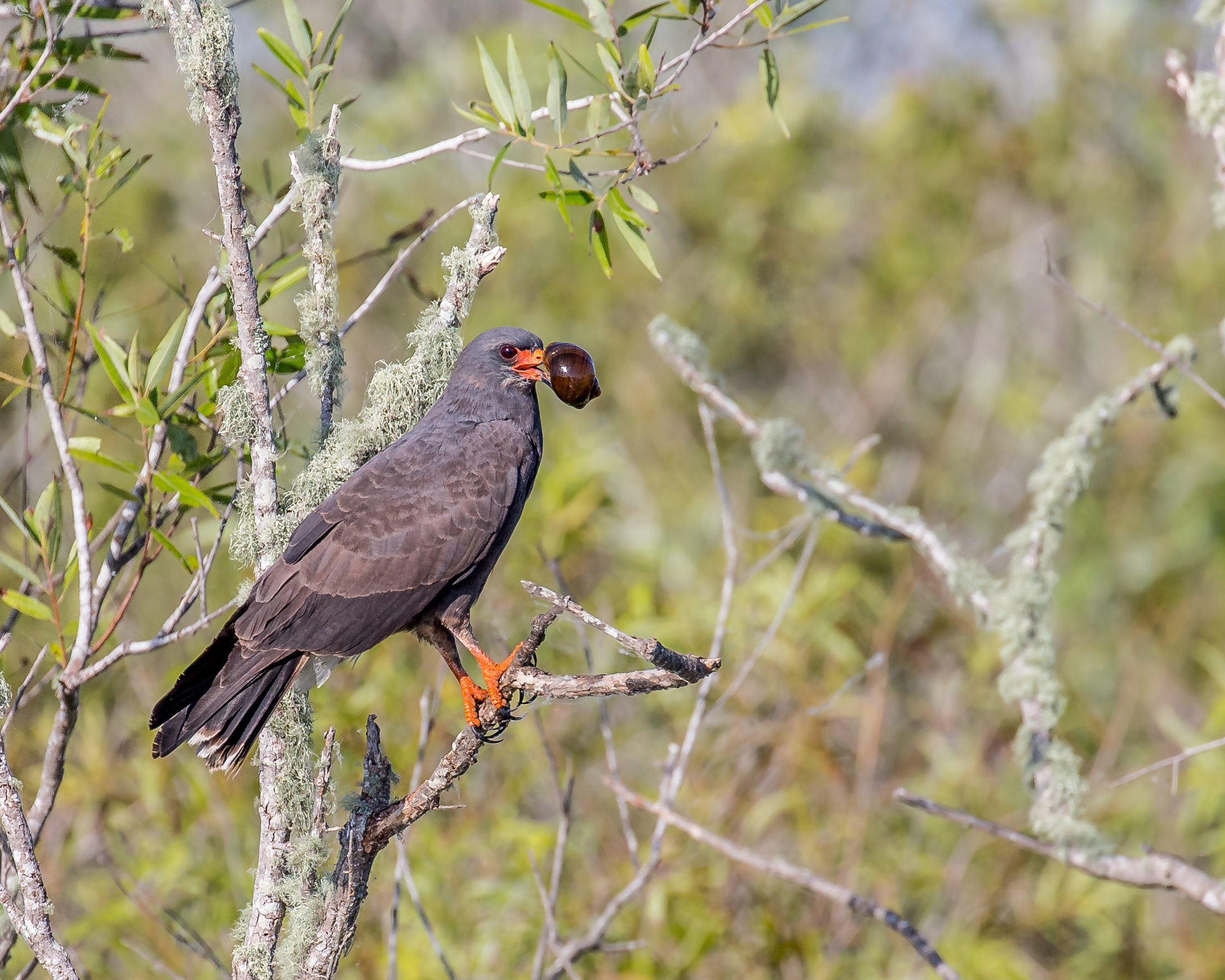 A male snail kite with an apple snail.